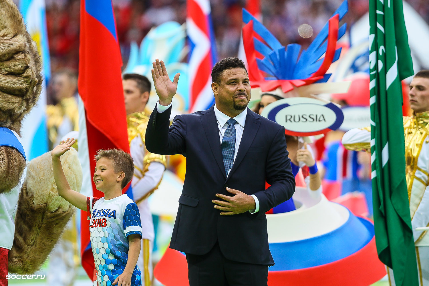 Ronaldo